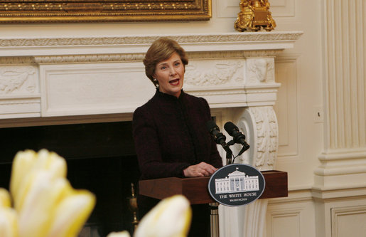 Laura Bush speaks to her guests, in honor of Nowruz, the new Persian Year, in 2008.